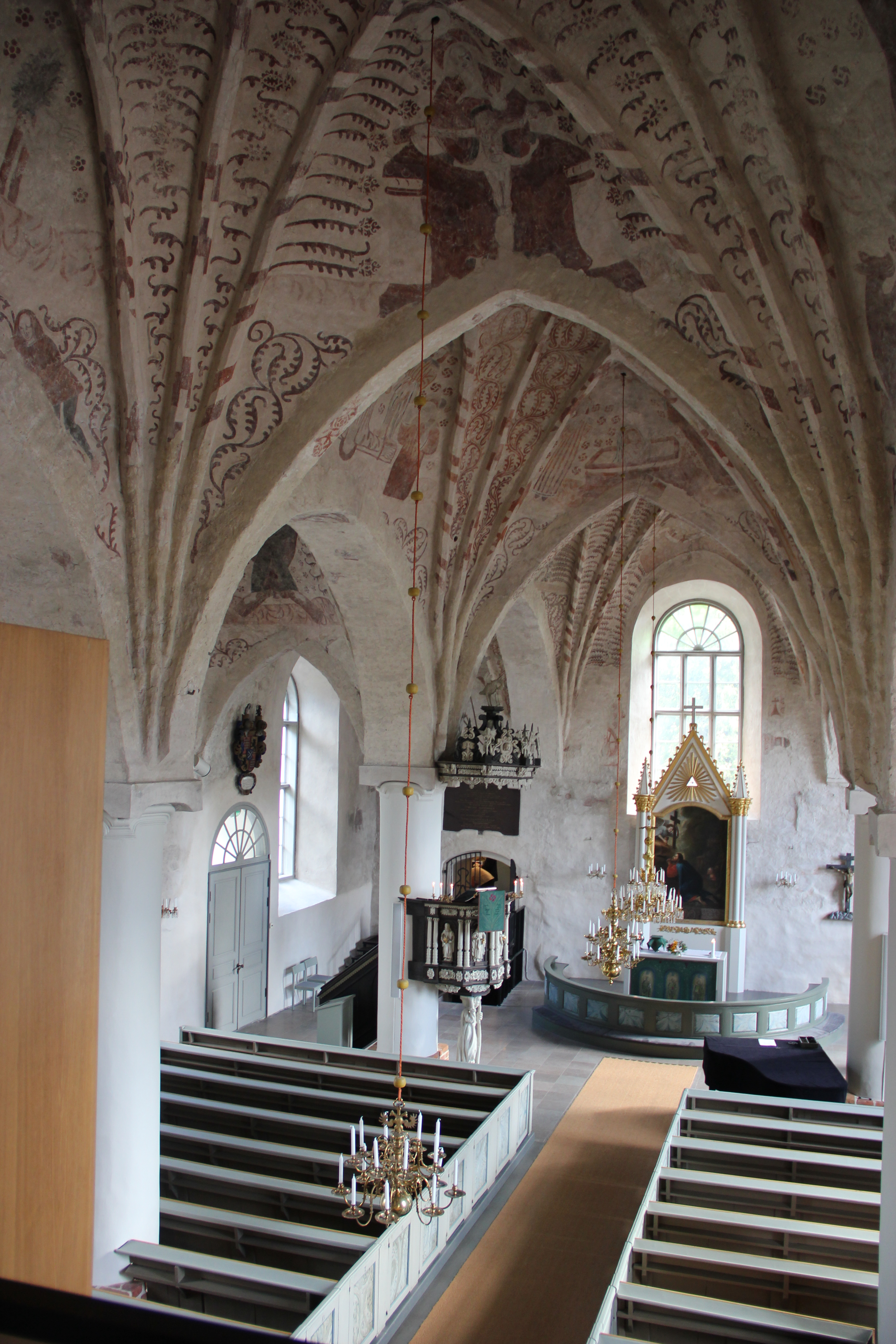 Church hall, Siuntio Church in Siuntio/Sjundeå, Finland